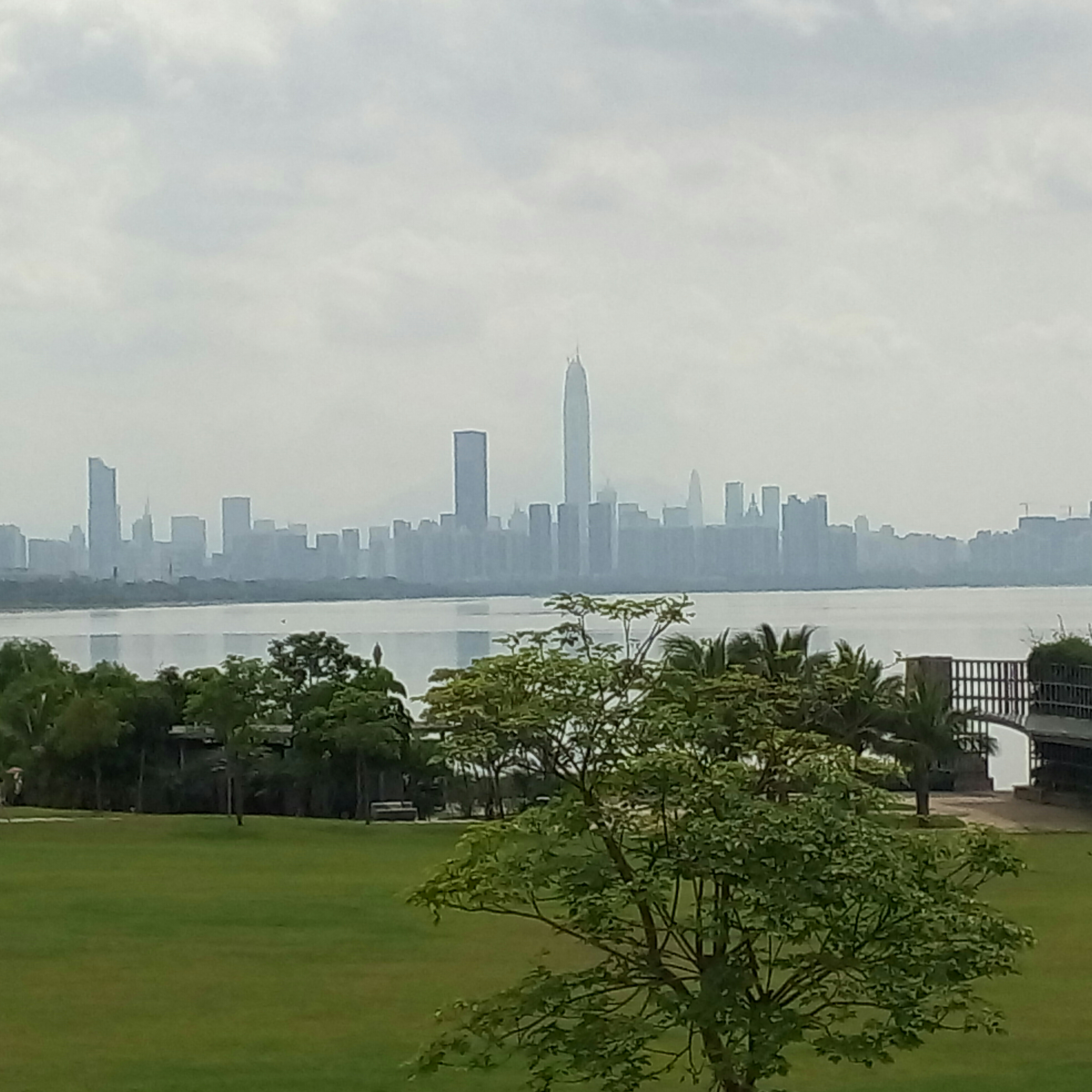 from Shenzhen Bay Park